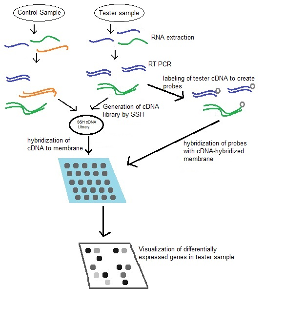 Image describing reverse northern procedure with cDNA from subtracted library and tester sample.